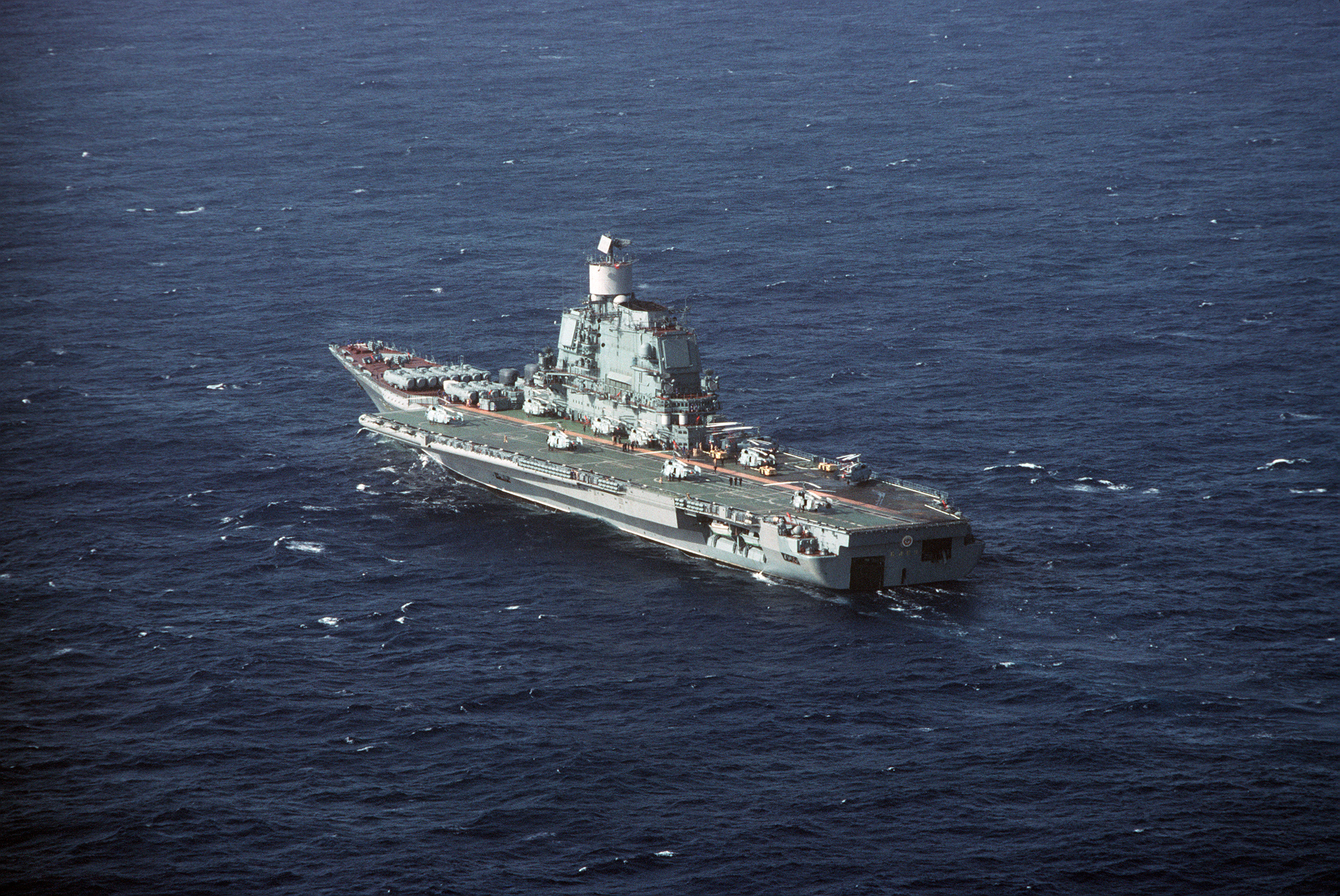 An aerial port quarter view of the Soviet Kiev class VSTOL aircraft carrier BAKU (CVHG 103) underway. Radar installations on the Baku exhibit extensive technological changes from the other three Kiev class carriers. Ka-27 Helix helicopters are parked on the flight deck.